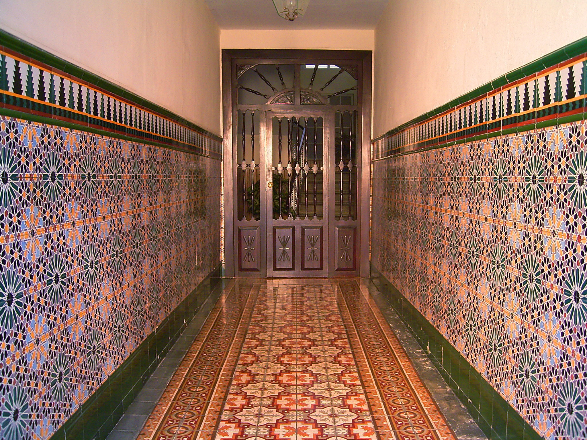 Description: Santa Cruz de La Palma, La Palma, Canary Islands Source: self-made Date: created 14. Mar. 2008 Author: Frank Vincentz Permission: GFDL (self made)